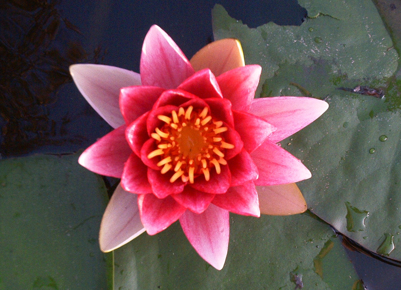 Lotus flower in Korea